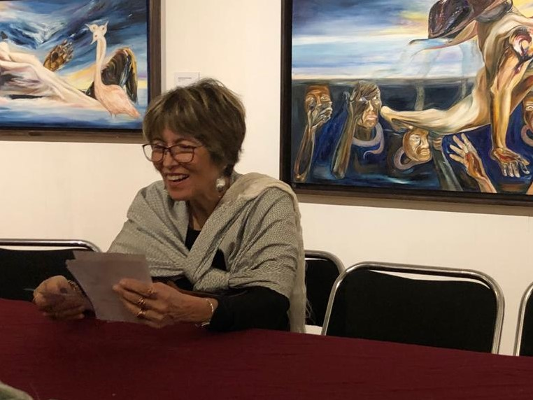 The painter Graciela González Duque offers a lecture about her creative process at the Centro de las Artes de San Luis Potosí, en México